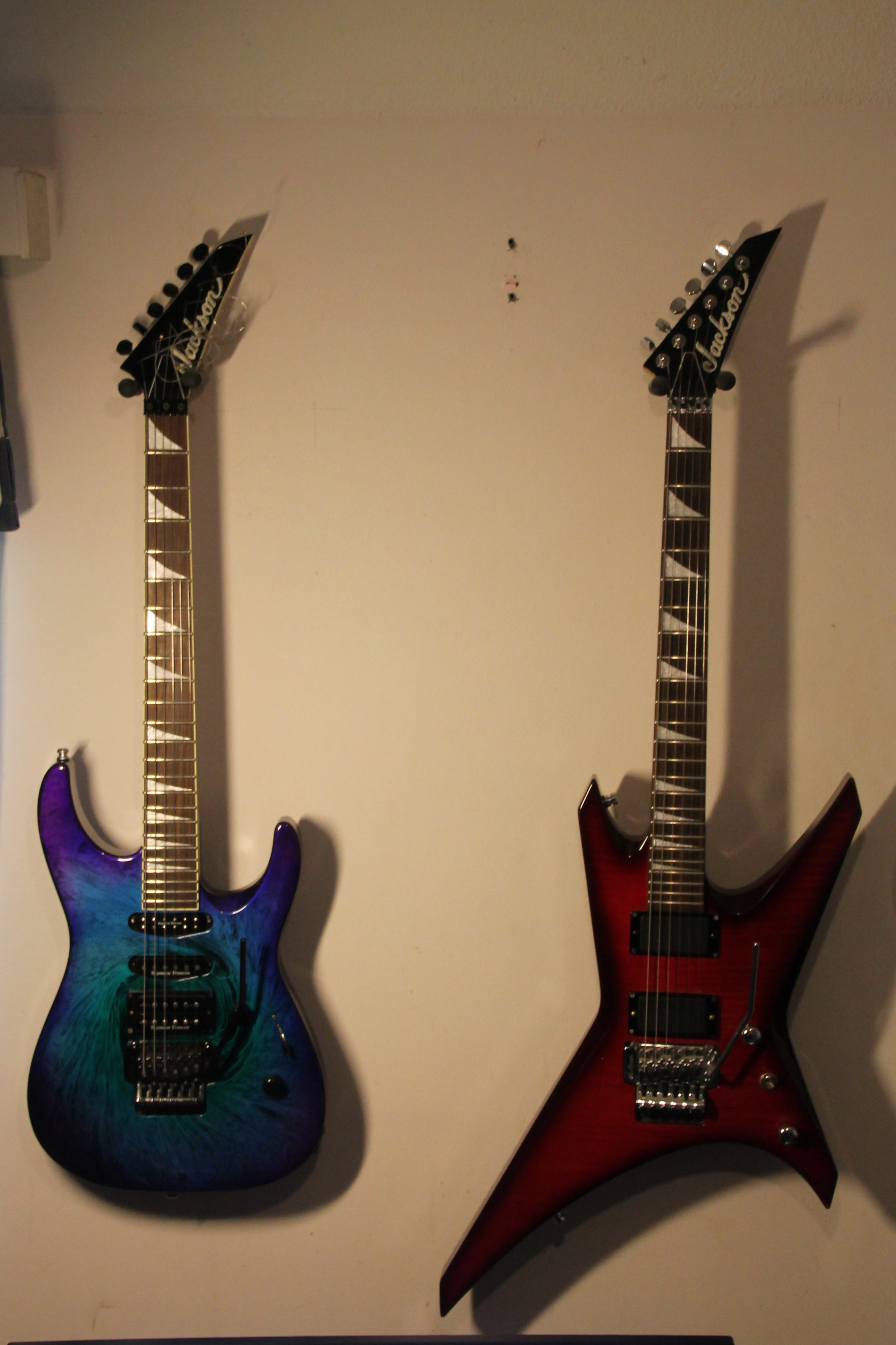 Jackson-electric guitars.